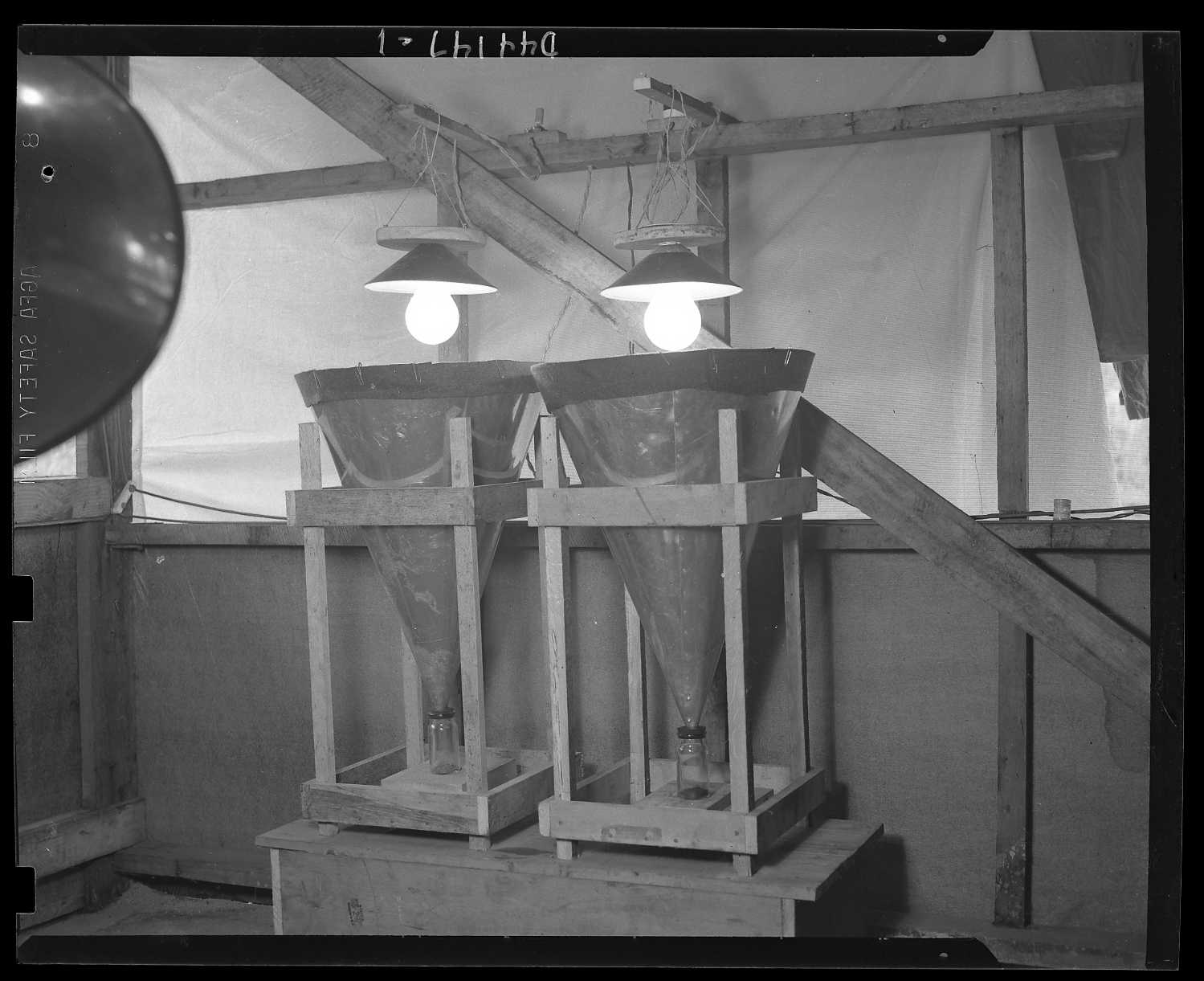 Berlese funnel, apparatus for collecting soil insects. Field improvised model. ref:MAMAS D44-147-1